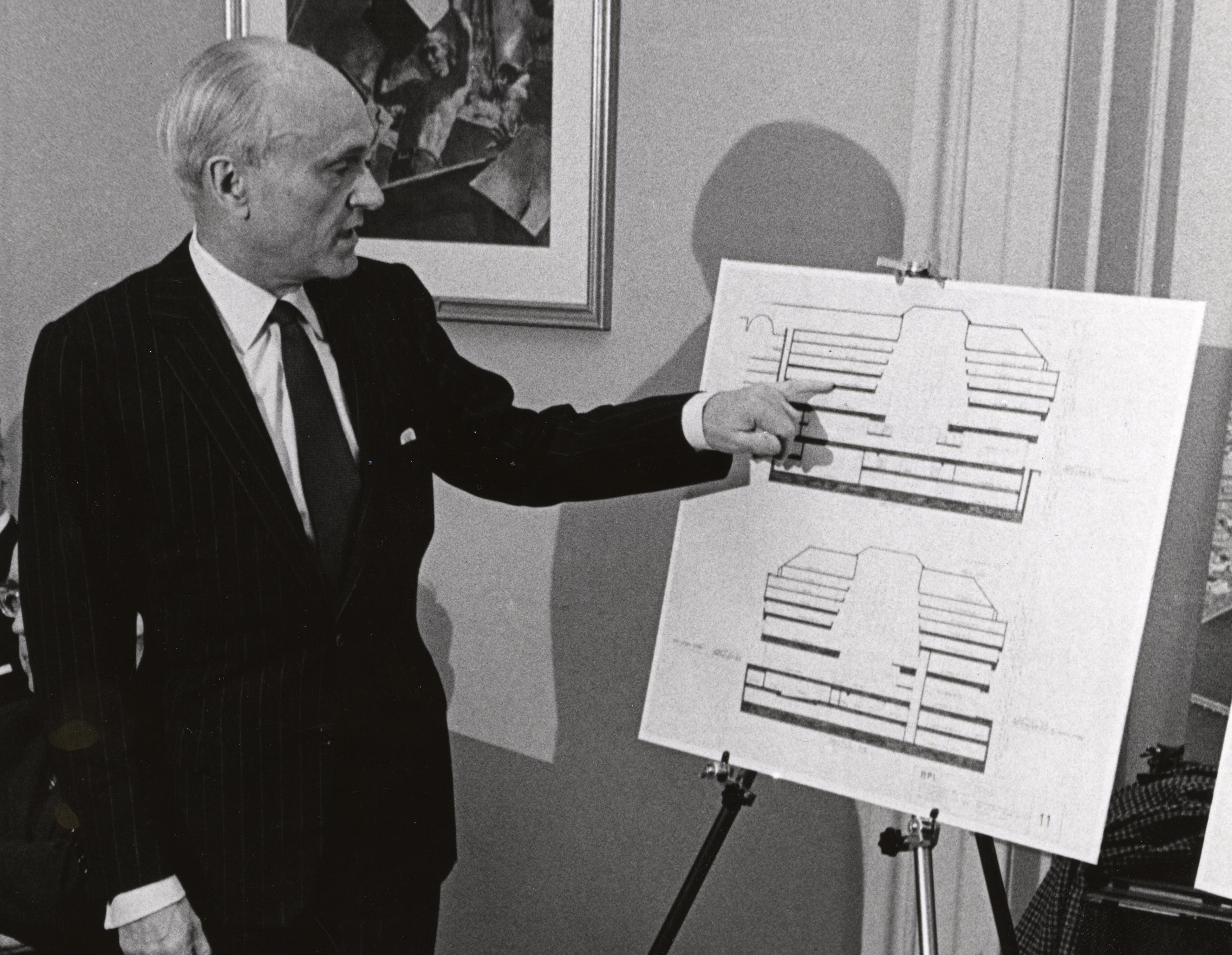 Title: Architect Philip Johnson standing in front of Visvaldis Paukulis of Architects Design Group, Incorporated, and Erwin D. Canham, vice president of Boston Public Library's Board of Trustees, at approval of design of proposed addition to Central Library building Creator: City of Boston Date: 1967 February 1 Source: Mayor John F. Collins records, Collection #0244.001 File name: 244001_0314 Rights: Copyright City of Boston Citation: Mayor John F. Collins records, Collection #0244.001, City of Boston Archives, Boston